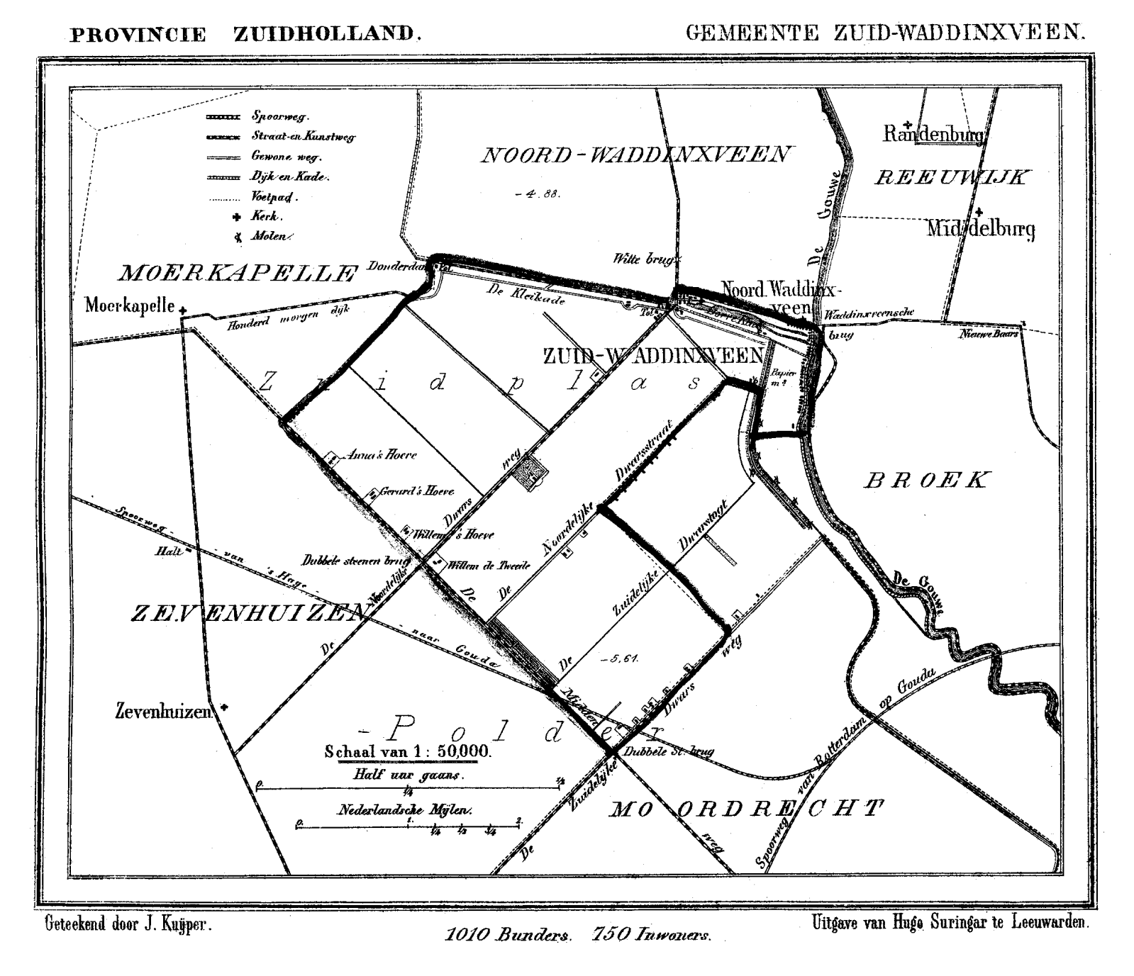 Historic map of Zuid Waddinxveen, South Holland, the Netherlands